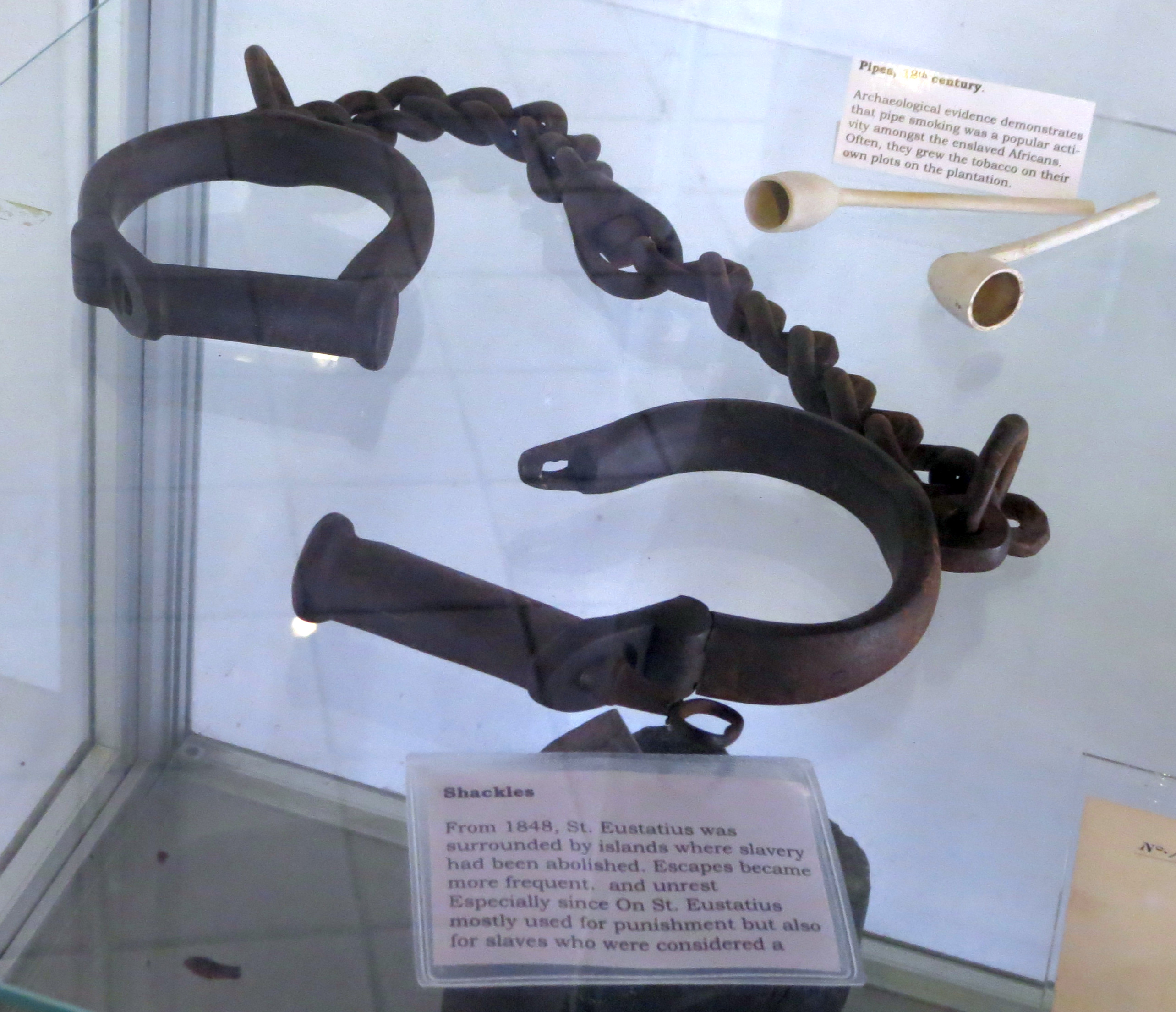 Slave shackles 1848 Sint Eustatius. Museum Sint Eustatius